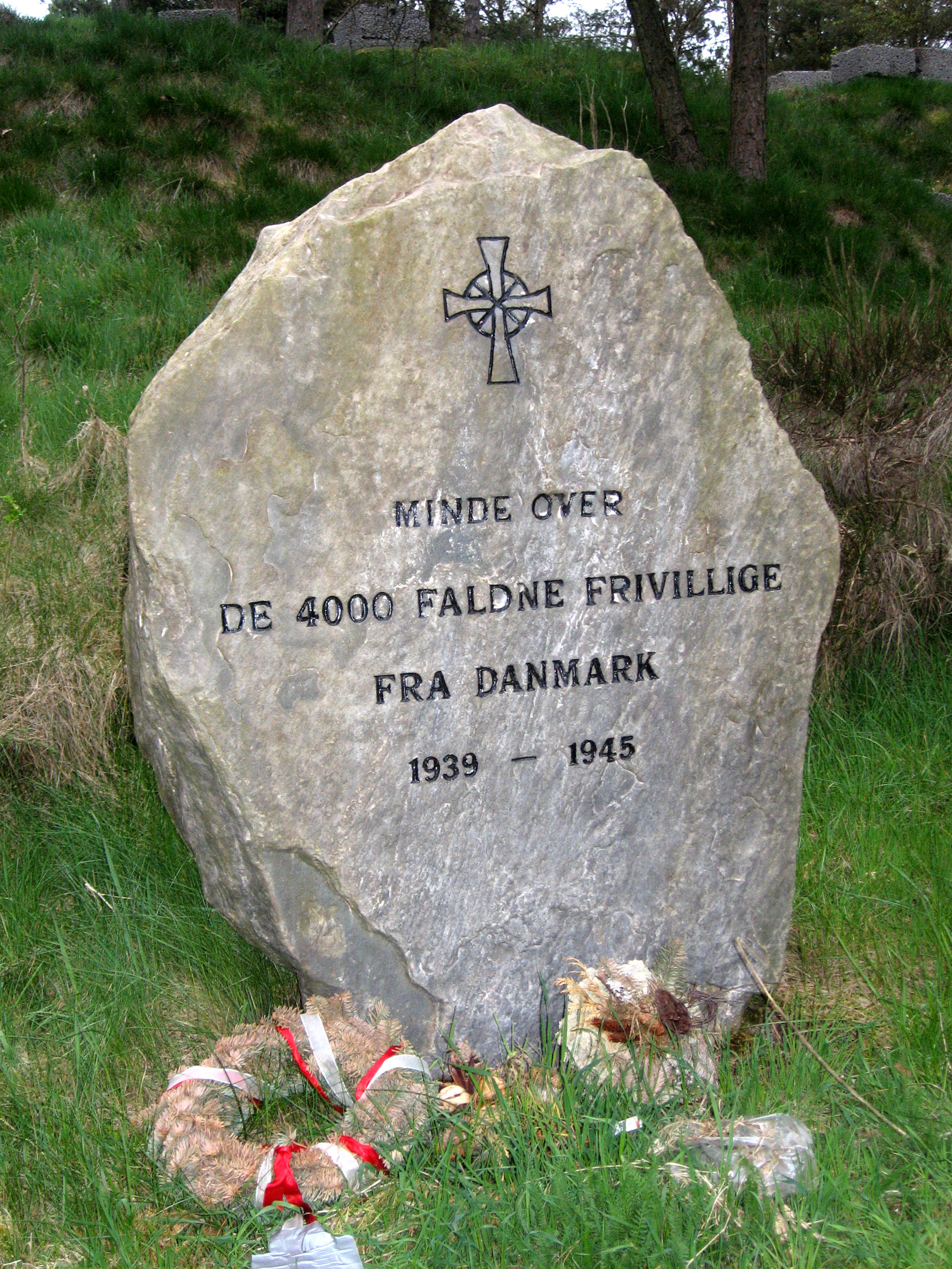 Fællesskabets Mindelund af 1969, a memorial for Danes serving in the German army at the Eastern Front during World War II. It's located at Kongensbro near Silkeborg in Jutland.